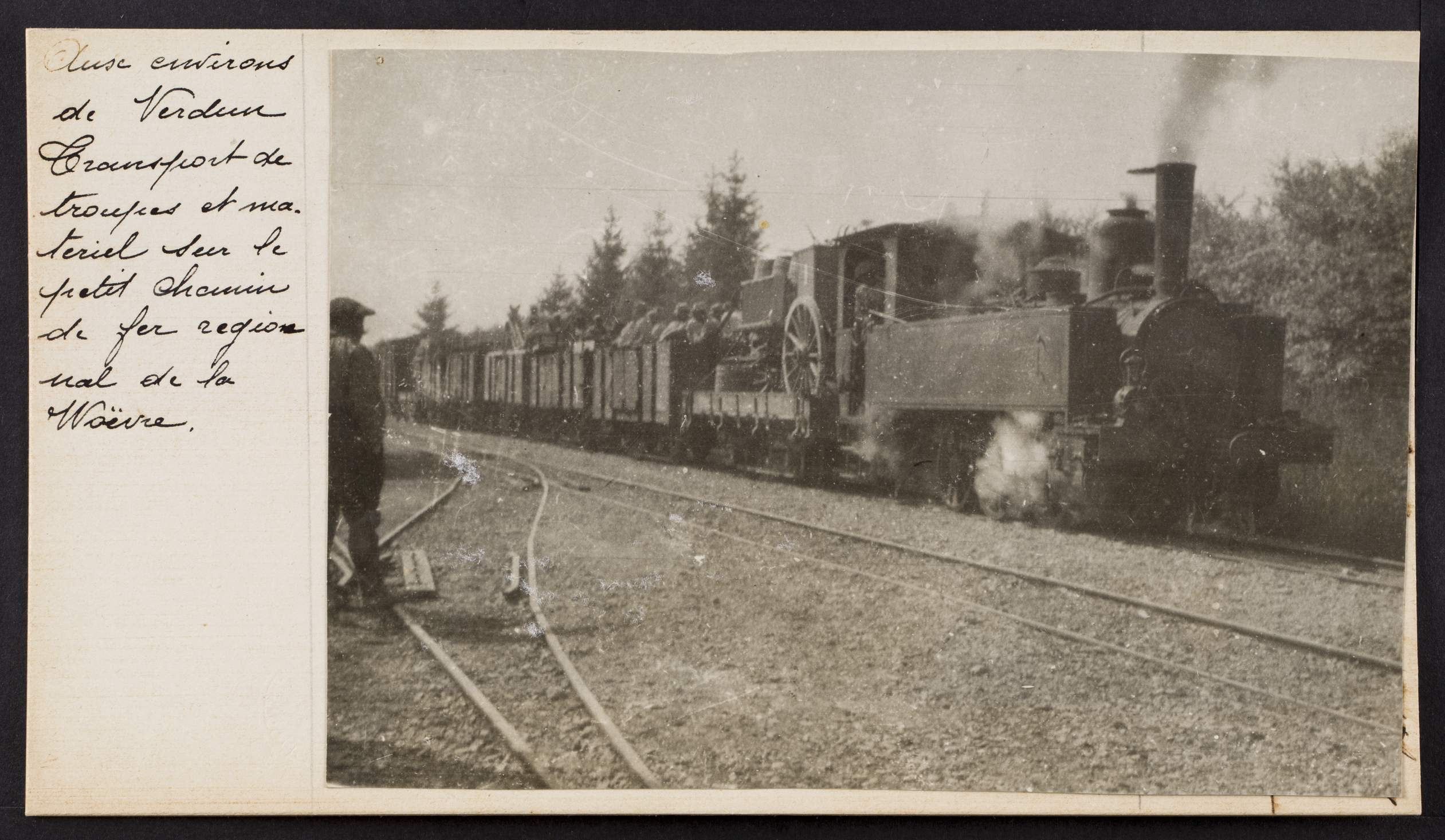 Aux environs de Verdun. Transport de troupes et matériel sur le petit chemin de fer régional de la Woëvre